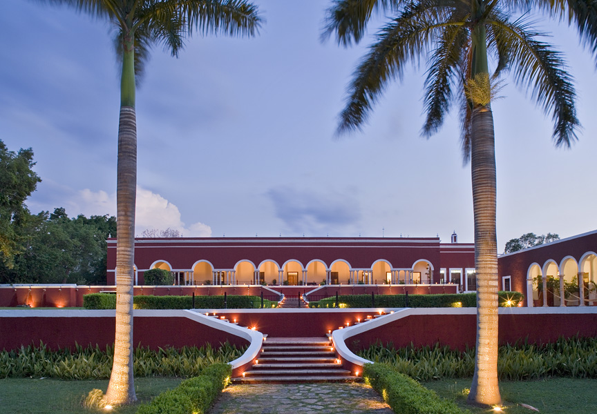 Main entrance view of The Hacienda Temozon